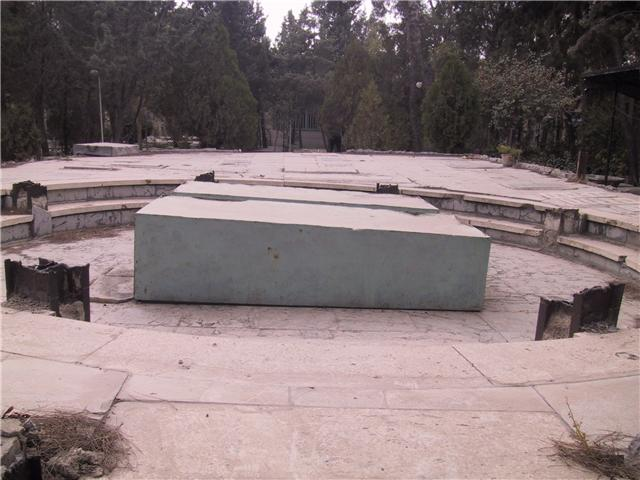 grave of Babaian and Lashgari cemetry Emamzadeh Abdullah, Tehran